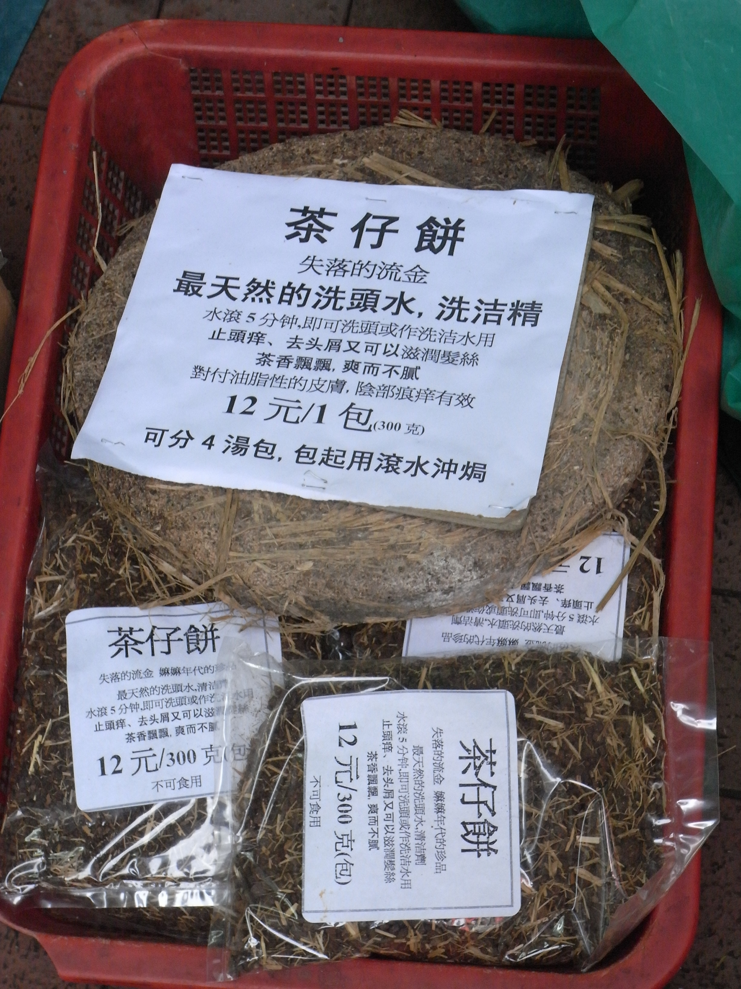 上環 雜貨店有售的茶仔餅